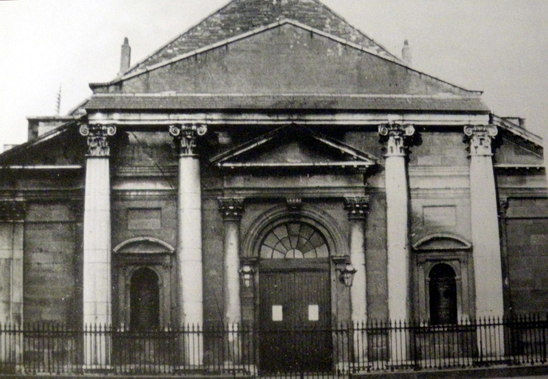 Photograph of St. Thomas's church, Dublin, taken about 1890 (the church was destroyed in 1922)